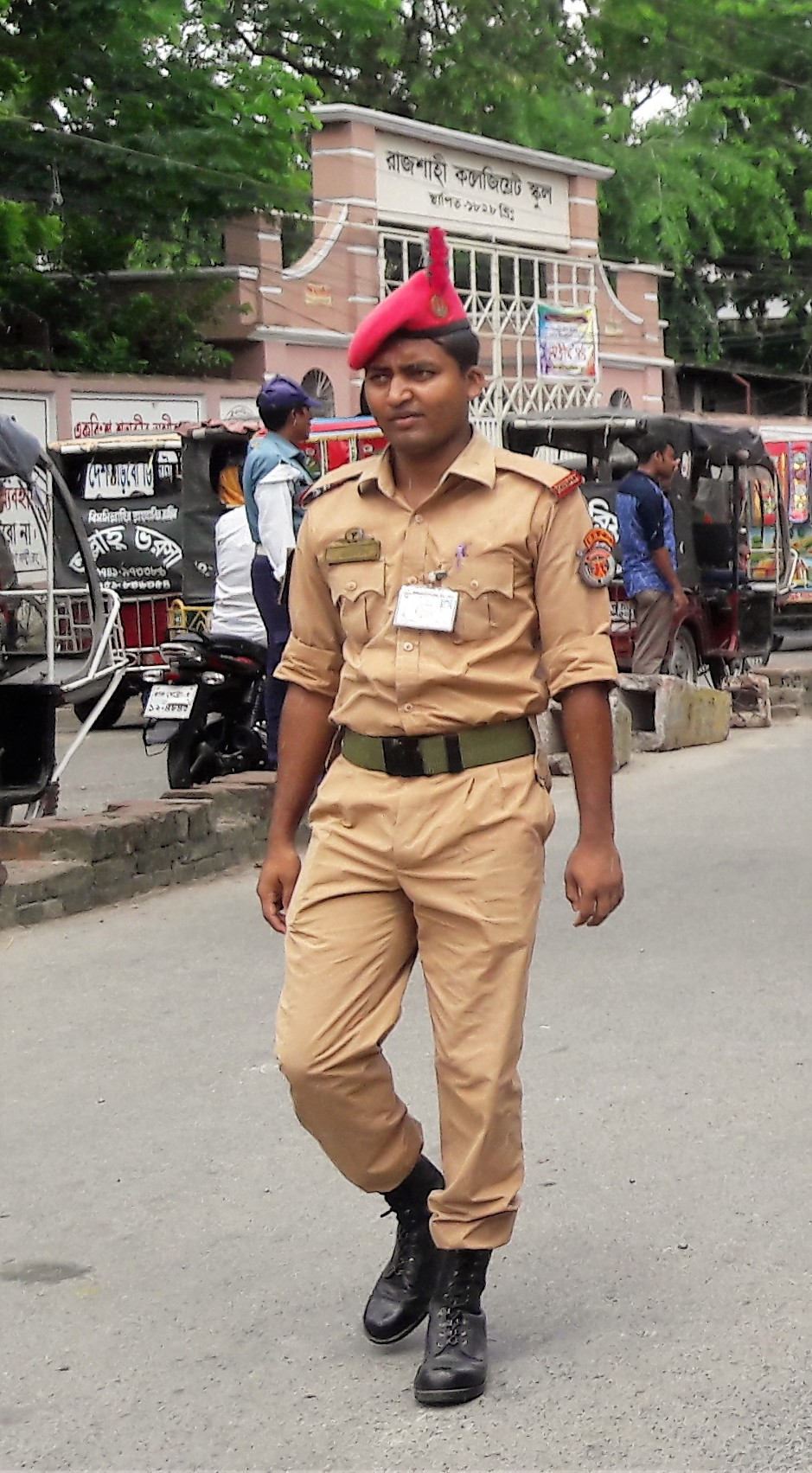 The Bangladesh National Cadet Corps (BNCC) is a tri-services organisation comprising the Army, Navy and Air Force for school, college and university students.